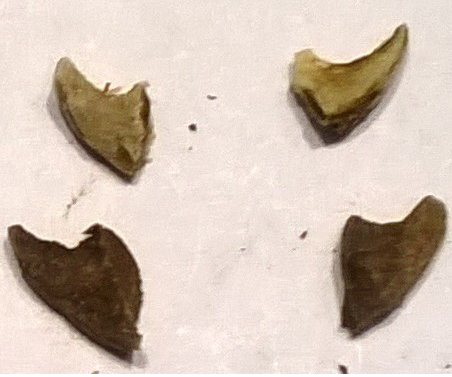 Hooks broken off from endocarp of the Vitex lucens Puriri nut (endocarp).